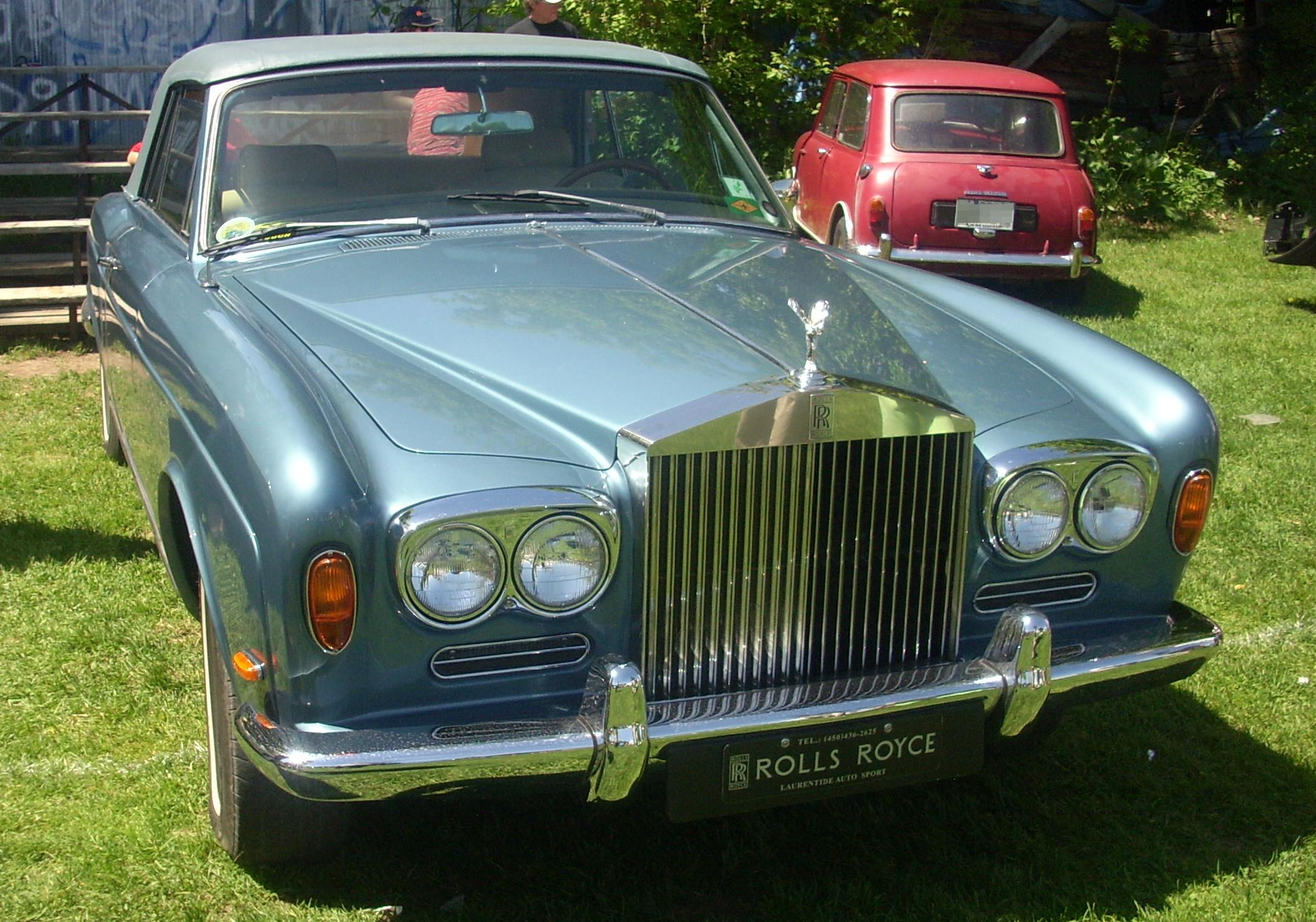 Any old year Rolls-Royce Corniche photographed at the 2008 Hudson British Car Show.